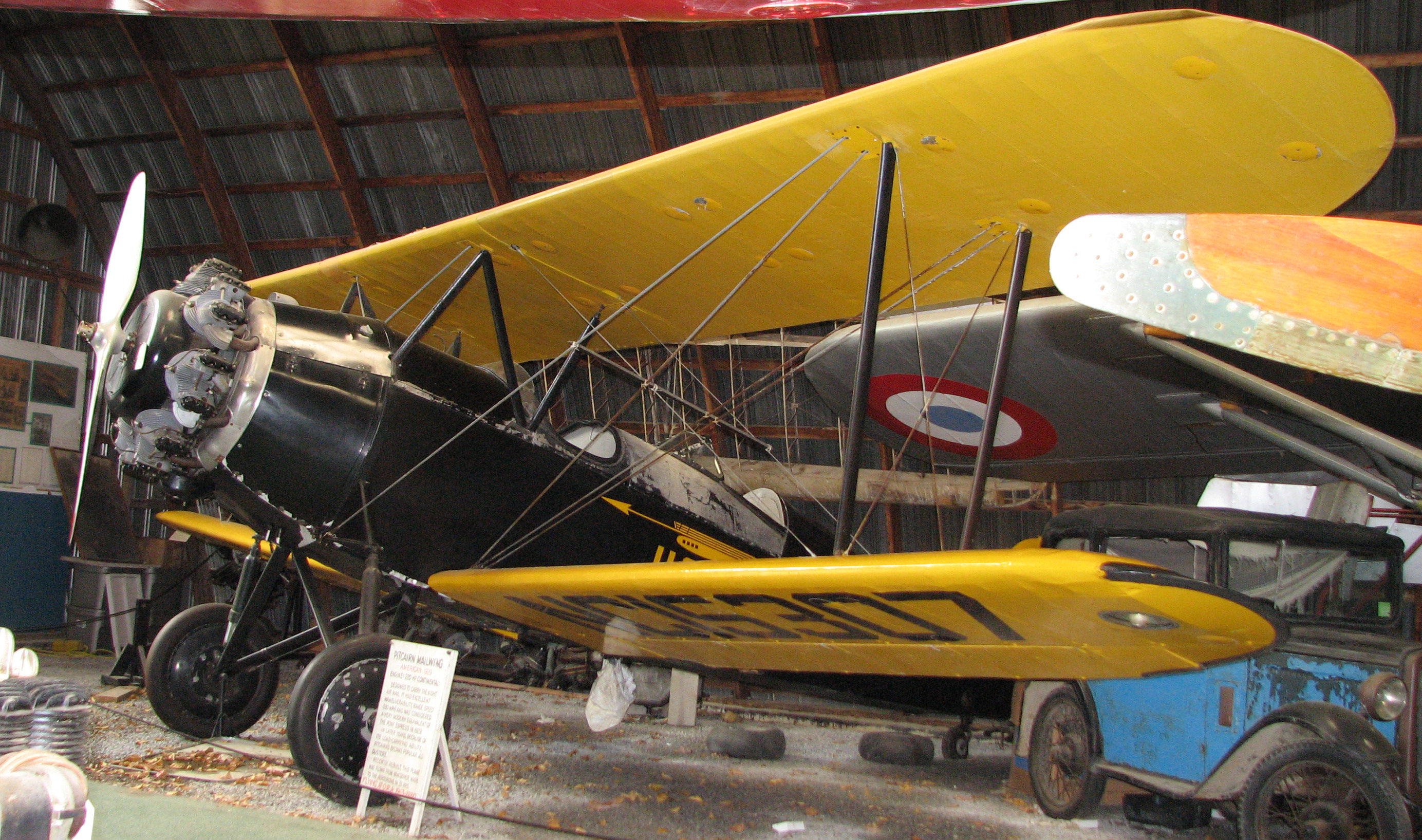 Pitcairn PA-6 Mailwing NC15307 on display at Old Rhinebeck